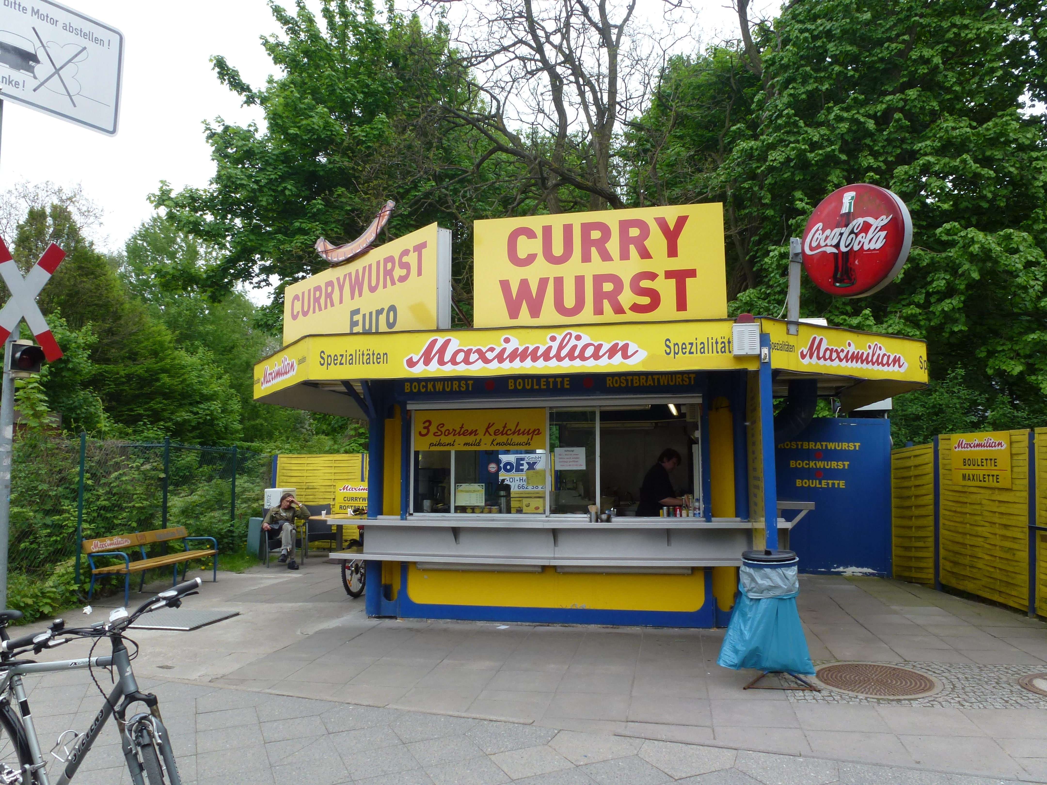 Berlin-Lichtenrade Prinzessinnenstraße Imbiss